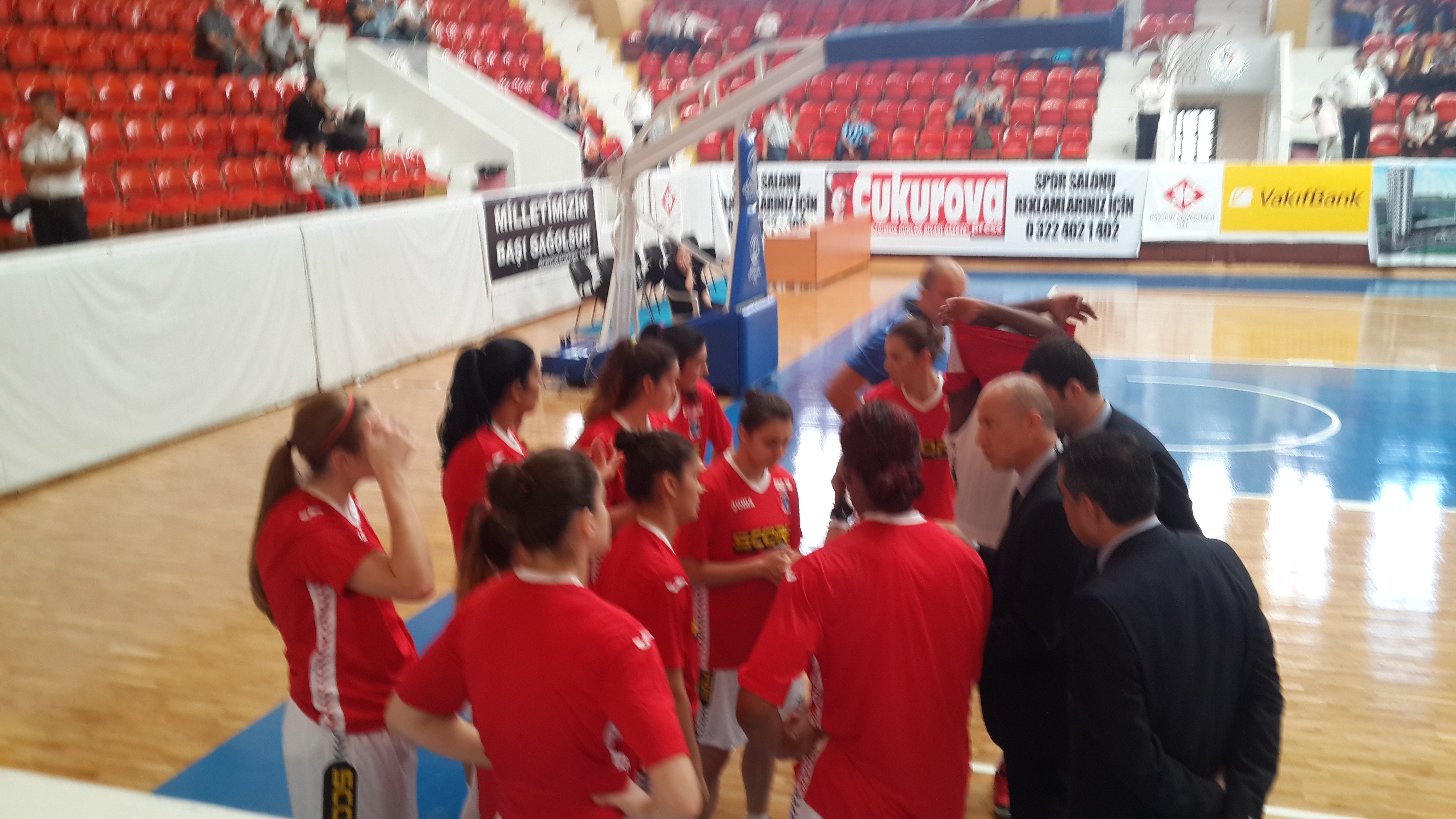 Botaş pre-game